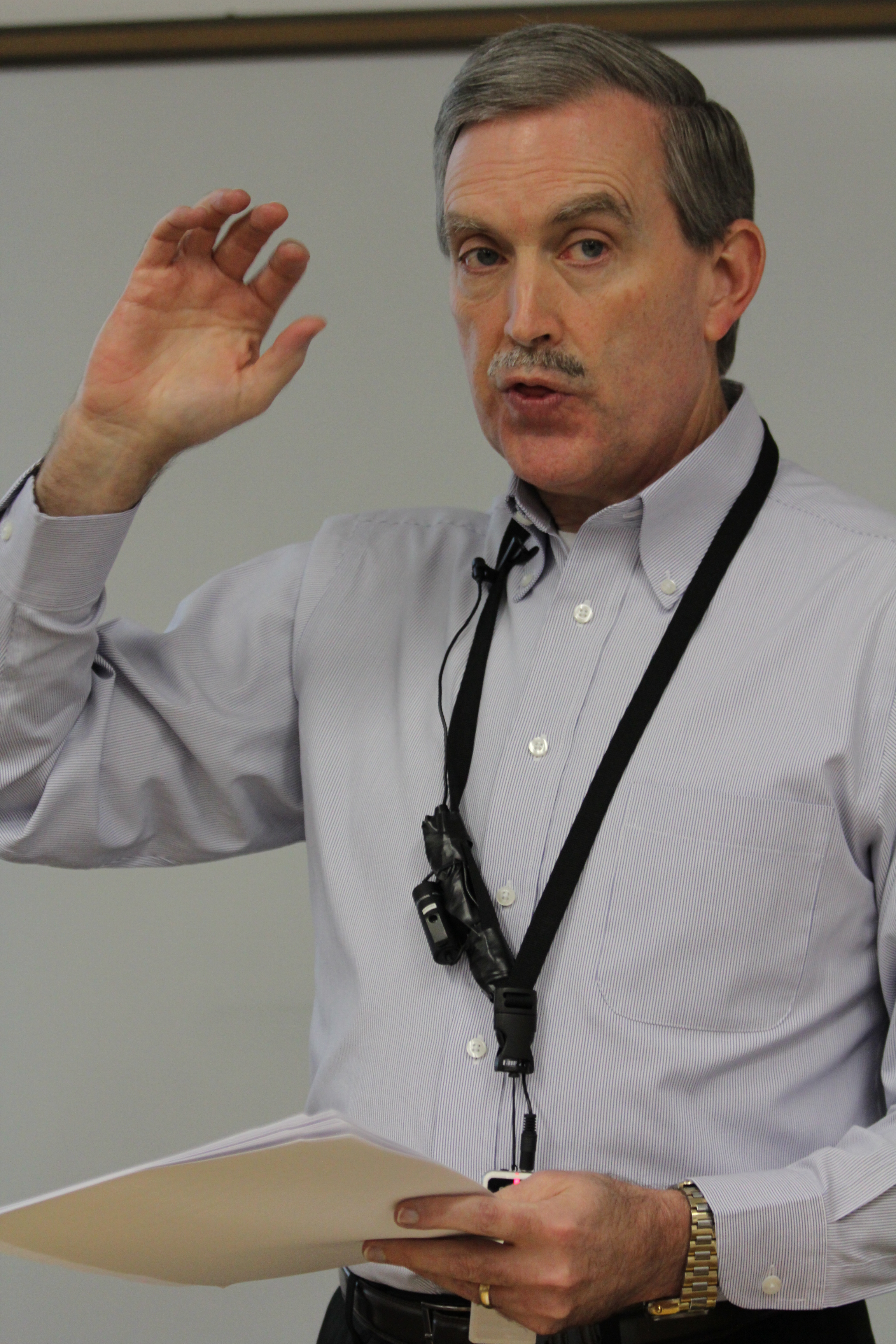 Doug Foster teaching at ACU Summit in September of 2013